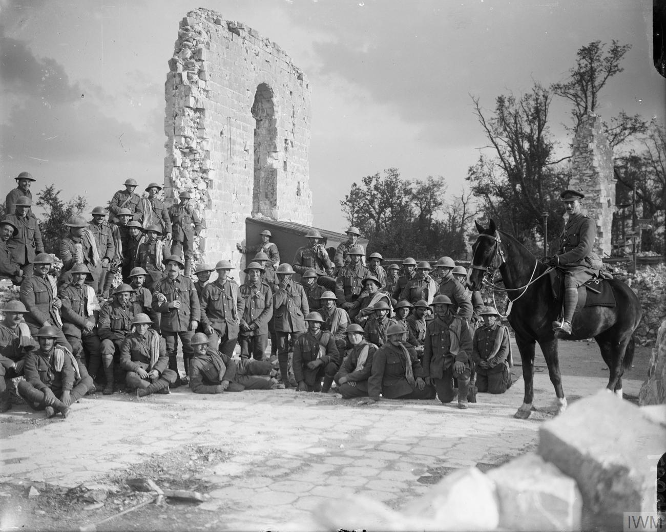 The British Army on the Western Front, 1914-1918 Troops of the 7th Battalion, Suffolk Regiment, in the ruins of the church in Tilloy, 18 October 1917.